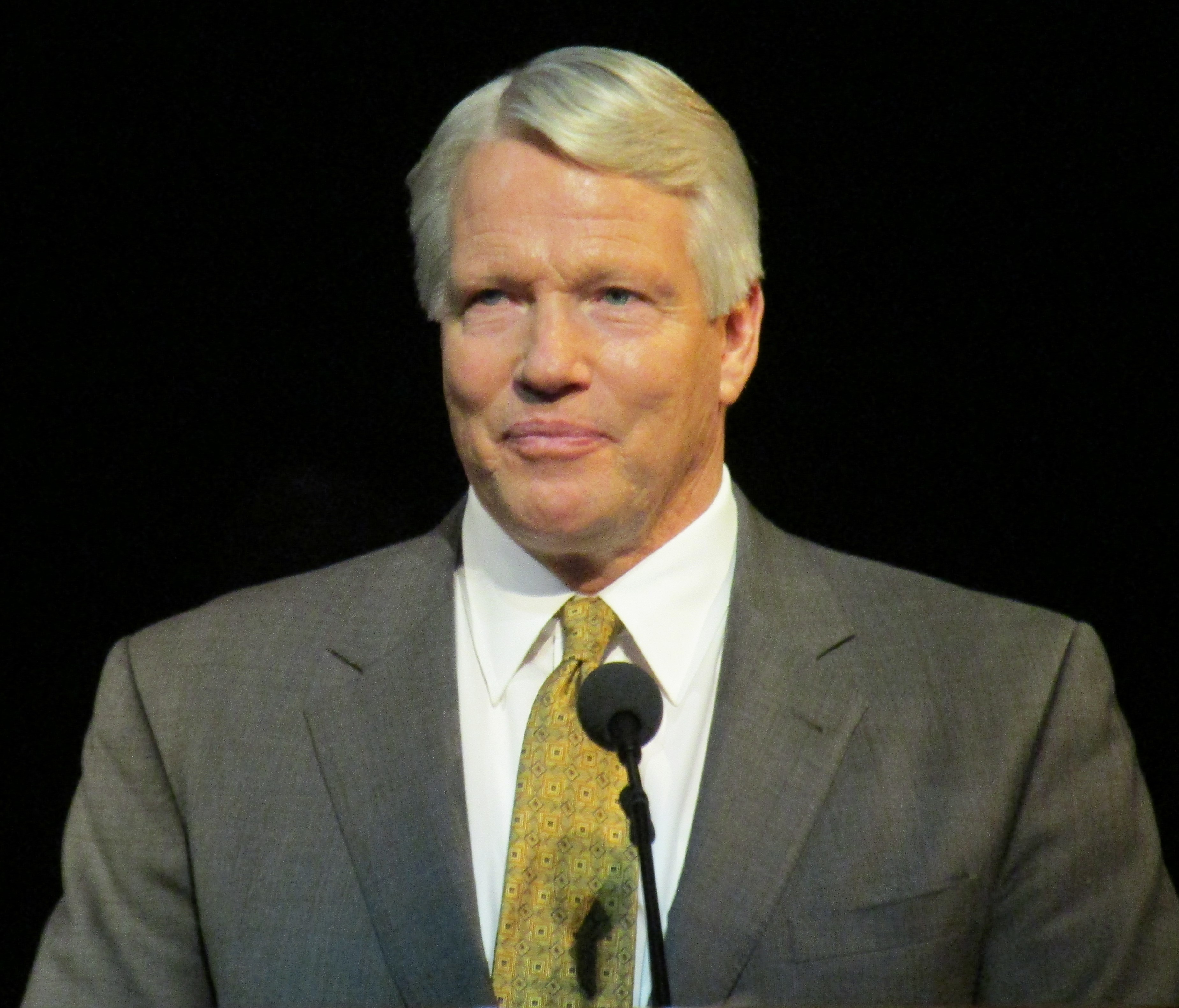 Stephen W. Owen speaking at a BYU devotional.